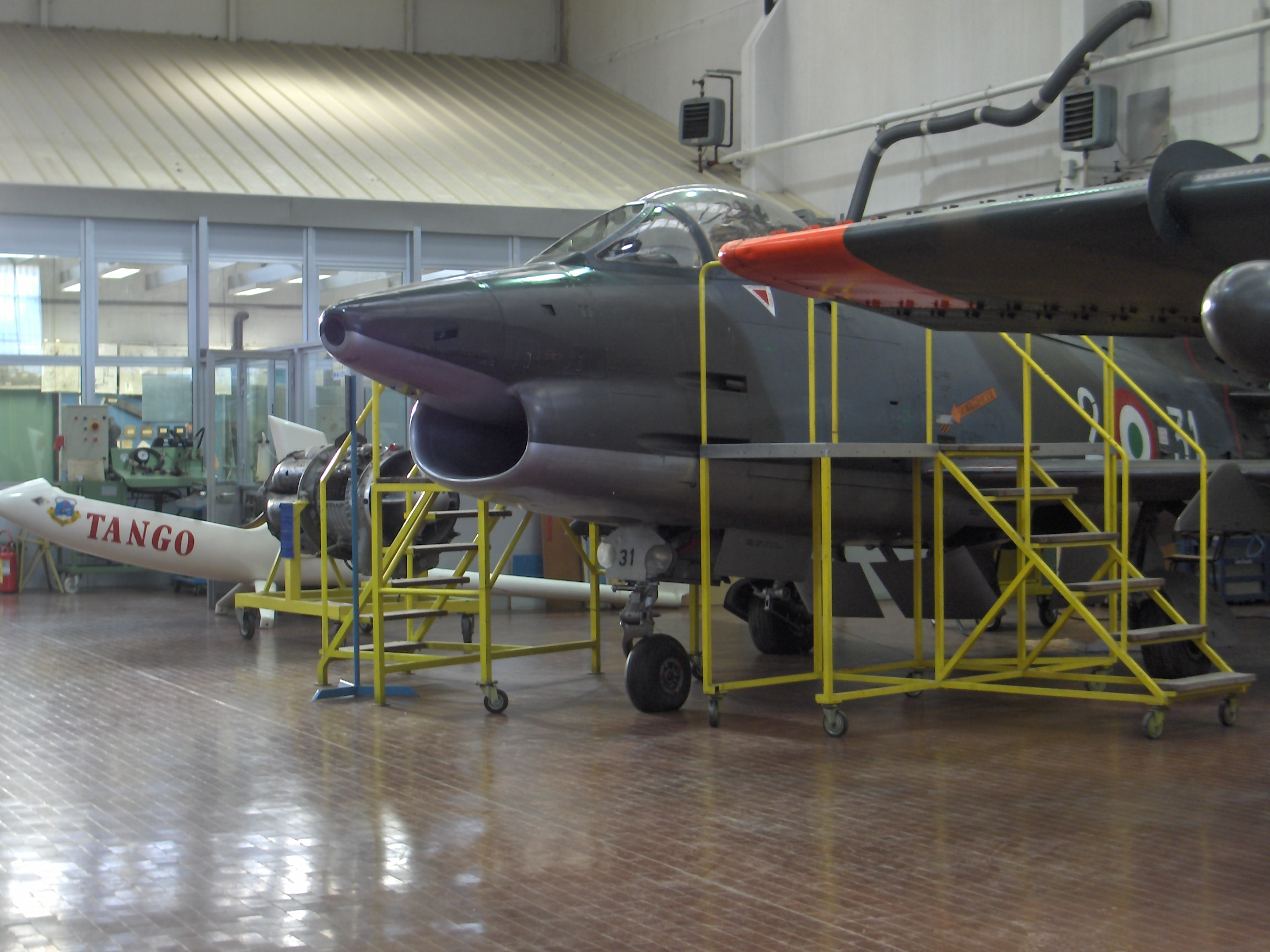 G.91 R1 of Italian Air Force at Istituto Tecnico Industriale Aeronautico "Malignani", Udine (Italy)